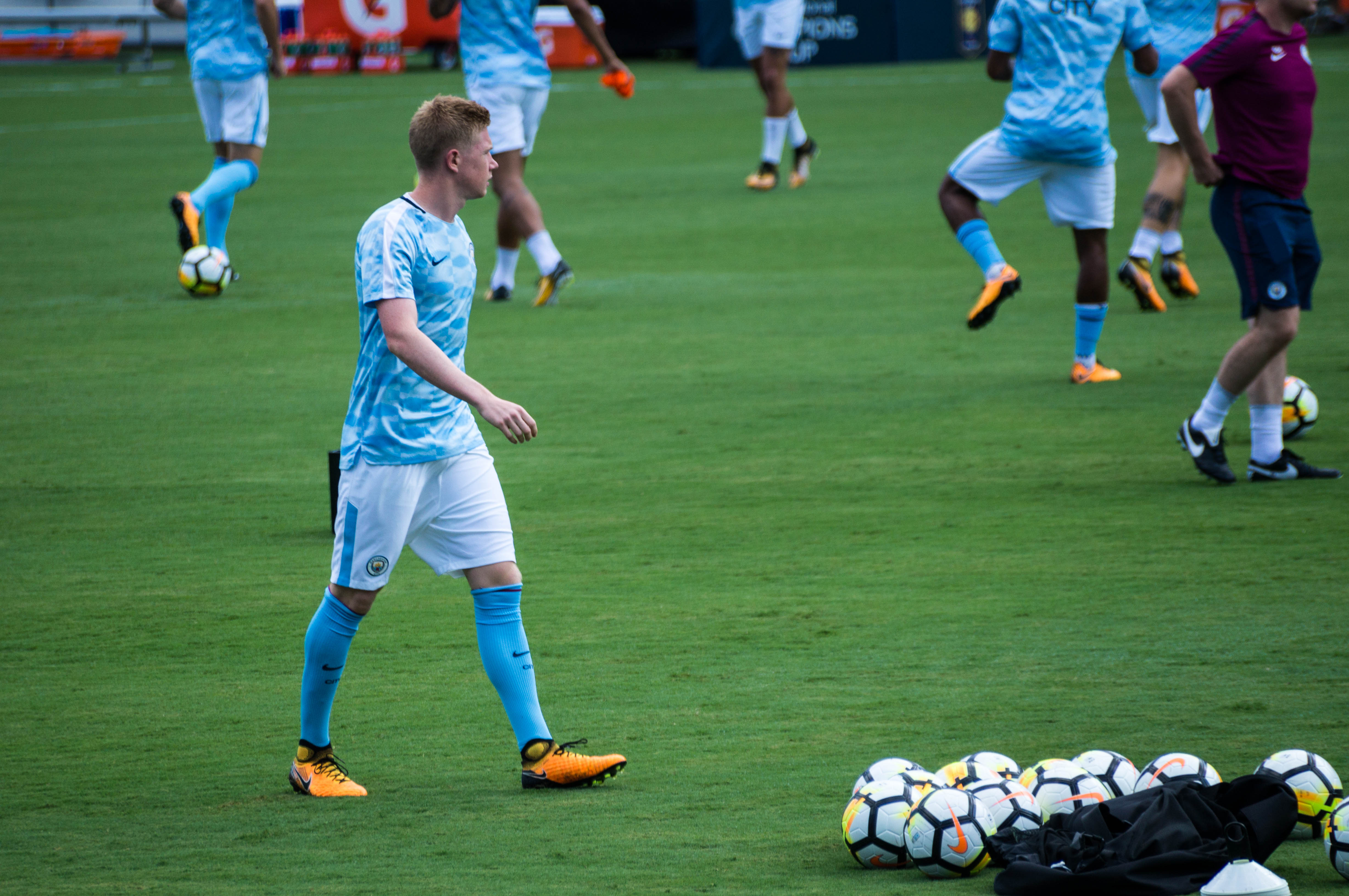 Manchester City vs Tottenham Hotspur at Nissan Stadium in Nashville, TN